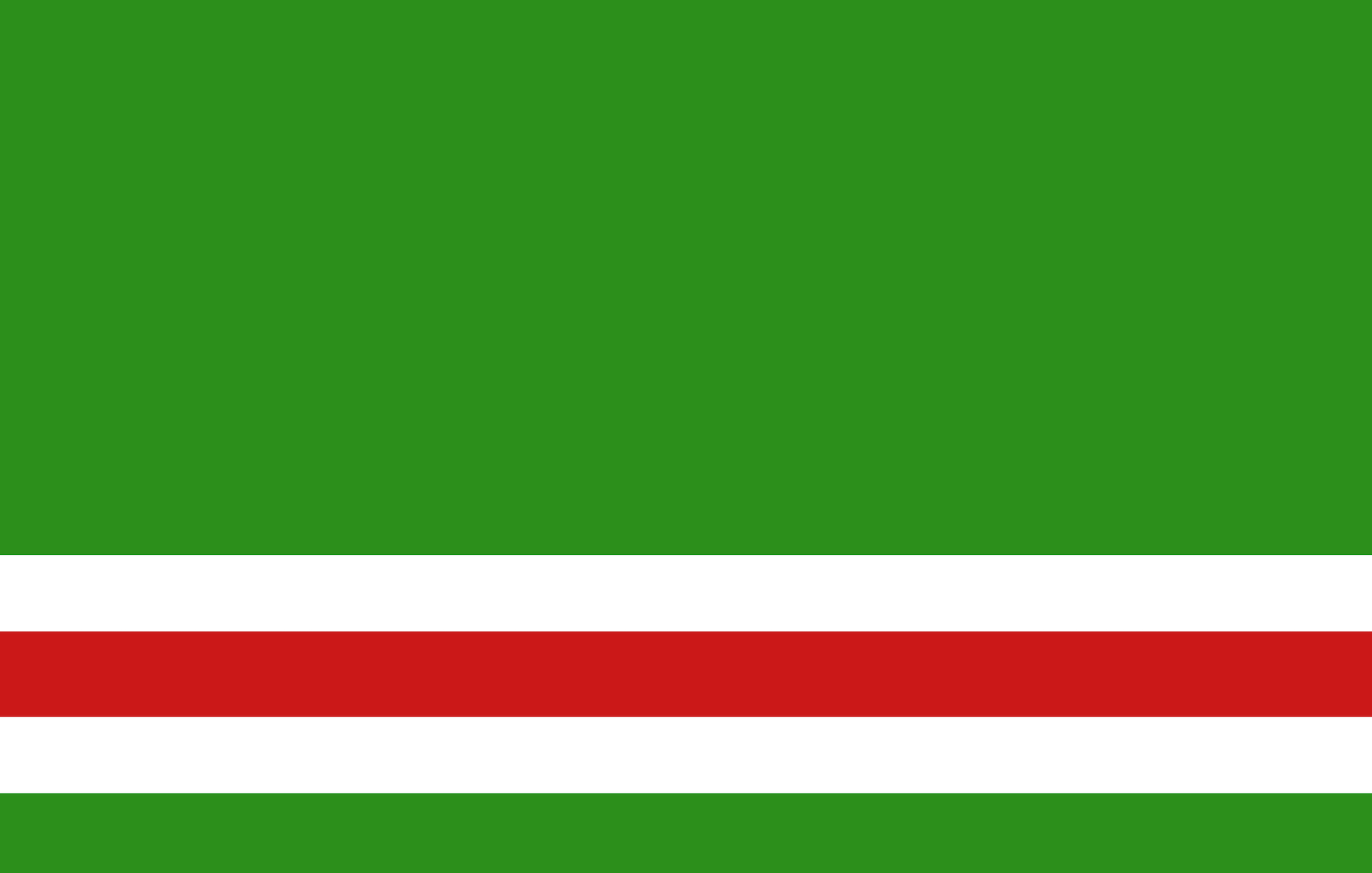 National Flag of Chechen Republic of Ichkeria without Coat of Arms